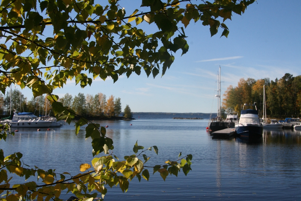 Linnunlahti boat harbour in Joensuu